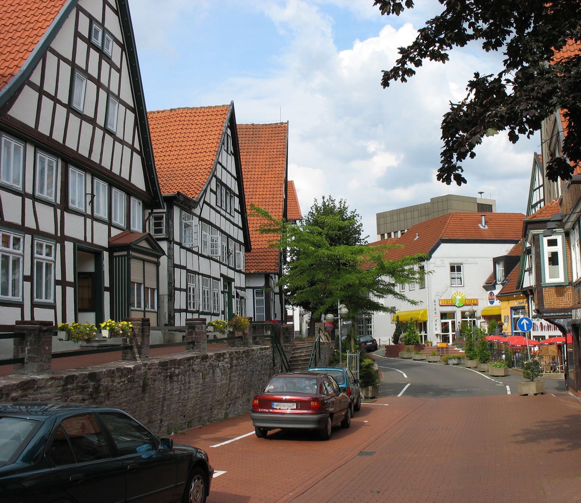 Street in town of Vlotho, District of Herford, North Rhine-Westphalia, Germany.